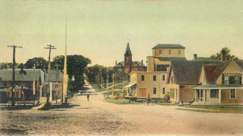 Street scene, Corinna, Maine. In the distance is the Stewart Free Library, designed by William H. Grimshaw and built in 1895-1898. It was added to the National Register of Historic Places in 1974.